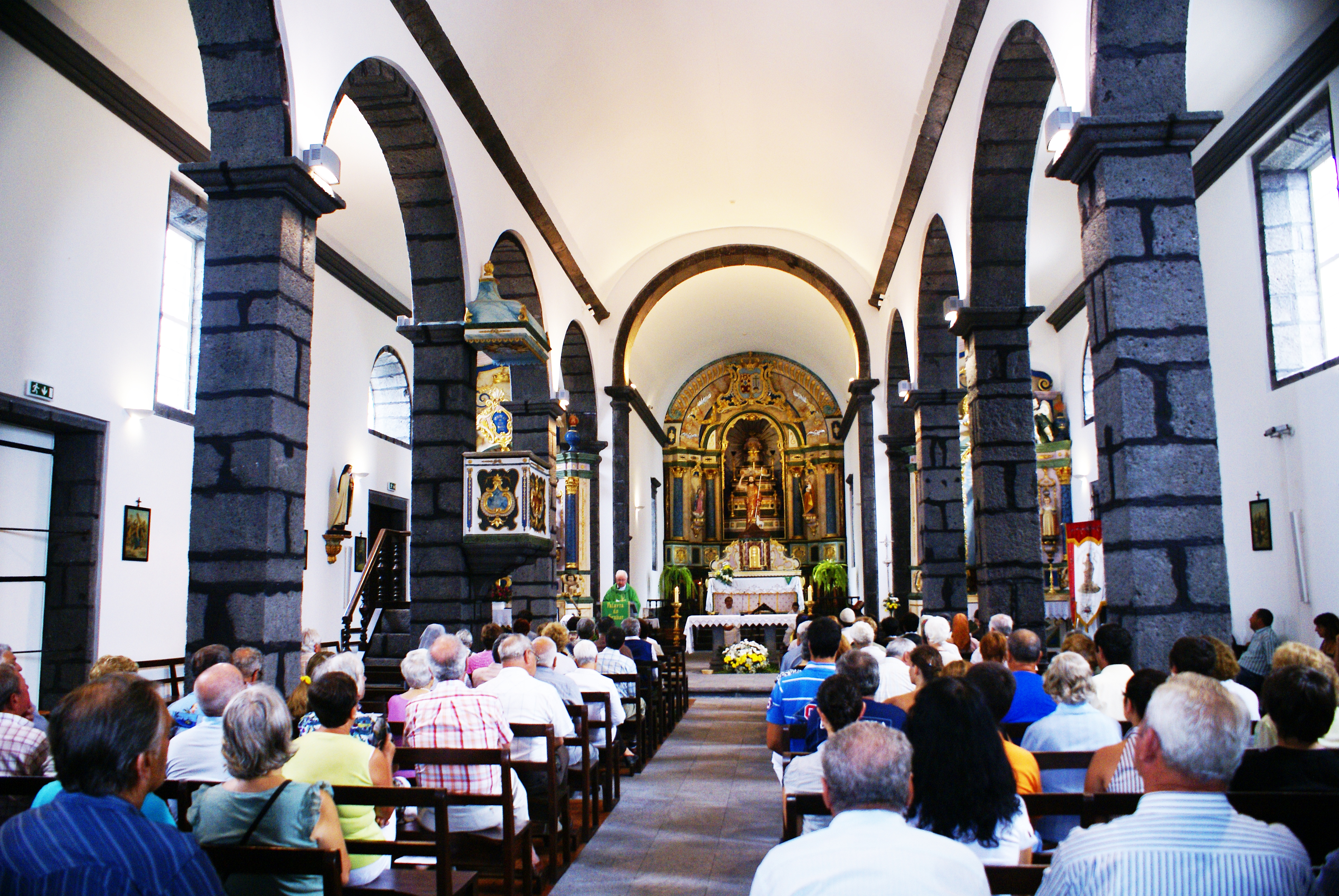 Service in the main nave of the Church of São João Baptista, São João, Lajes do Pico, ilha do Pico, Açores, Portugal